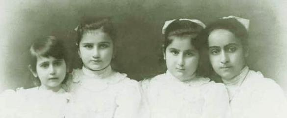 Asadullayev sisters